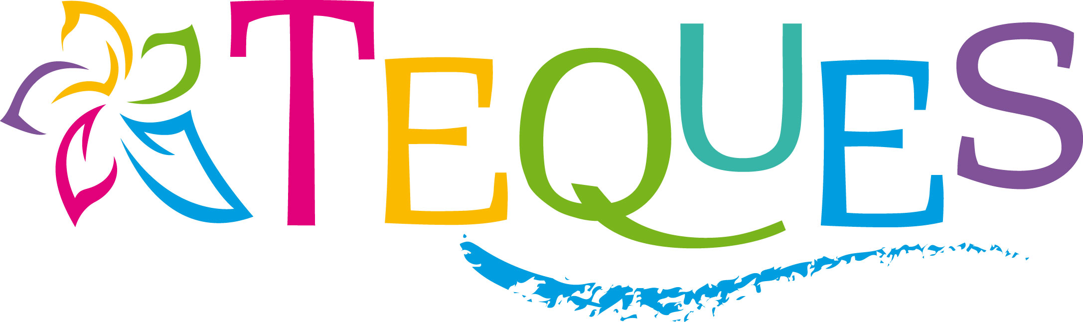 Tequesquitengo Lake Logo